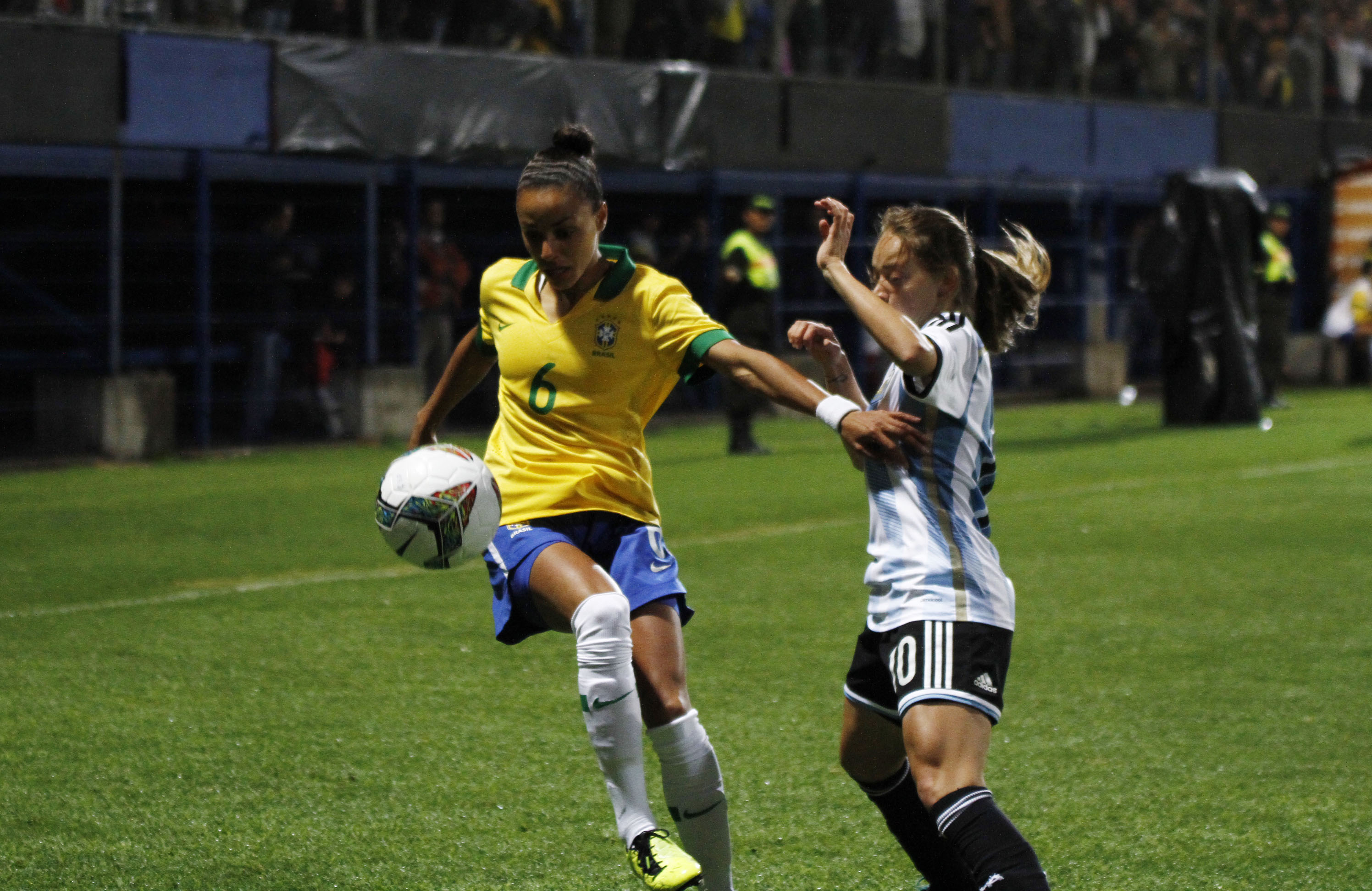 Sangolqui, 26 (Andes).- En el estadio de Sangolquí se enfrentaron las seleciones de Brasil y Argentina por la Copa Amérca Femenina Ecuador 2014, Foto: Micaela Ayala V./Andes This file comes from the Flickr stream of the Public News Agency of Ecuador and South America and is copyrighted. This file is verified as being licenced under an appropriate Creative Commons licence. In short: you are free to modify the file as long as you attribute Photographer name/Andes and distribute it under the same licence. This tag does not indicate the copyright status of the attached work. A normal copyright tag is still required. See Commons:Licensing for more information. English | español | +/−